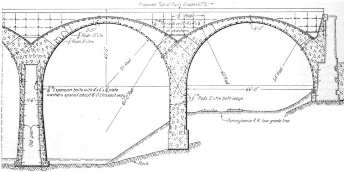 Details of the Structure, Philadelphia and Reading Railroad Bridge, Harrisburg, PA